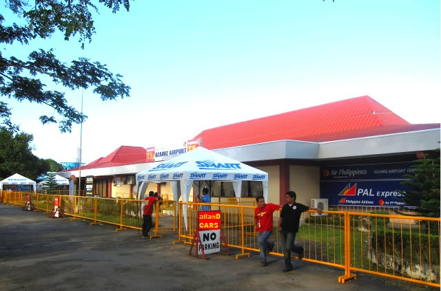 Semi-official picture of New Terminal Building